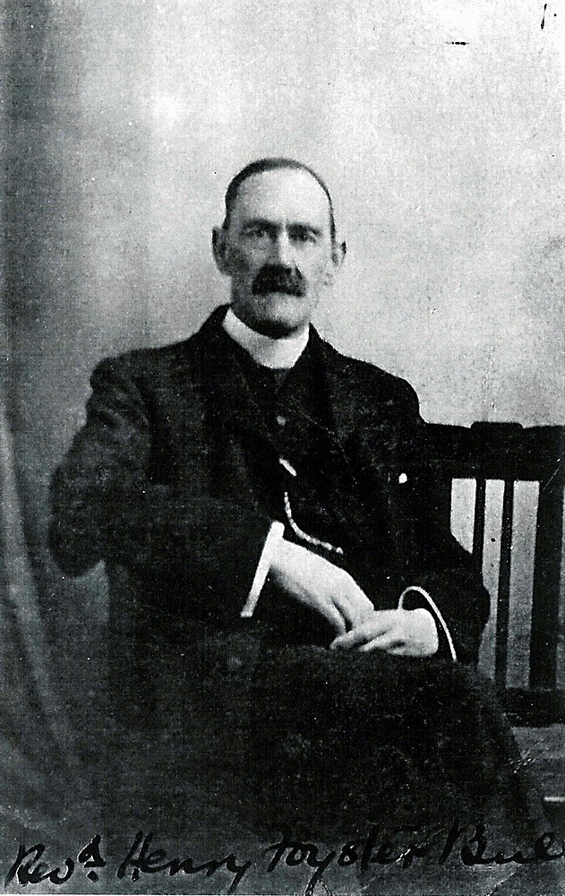 This image is photograph of Reverend Henry Dawson Ellis Bull made before 1892